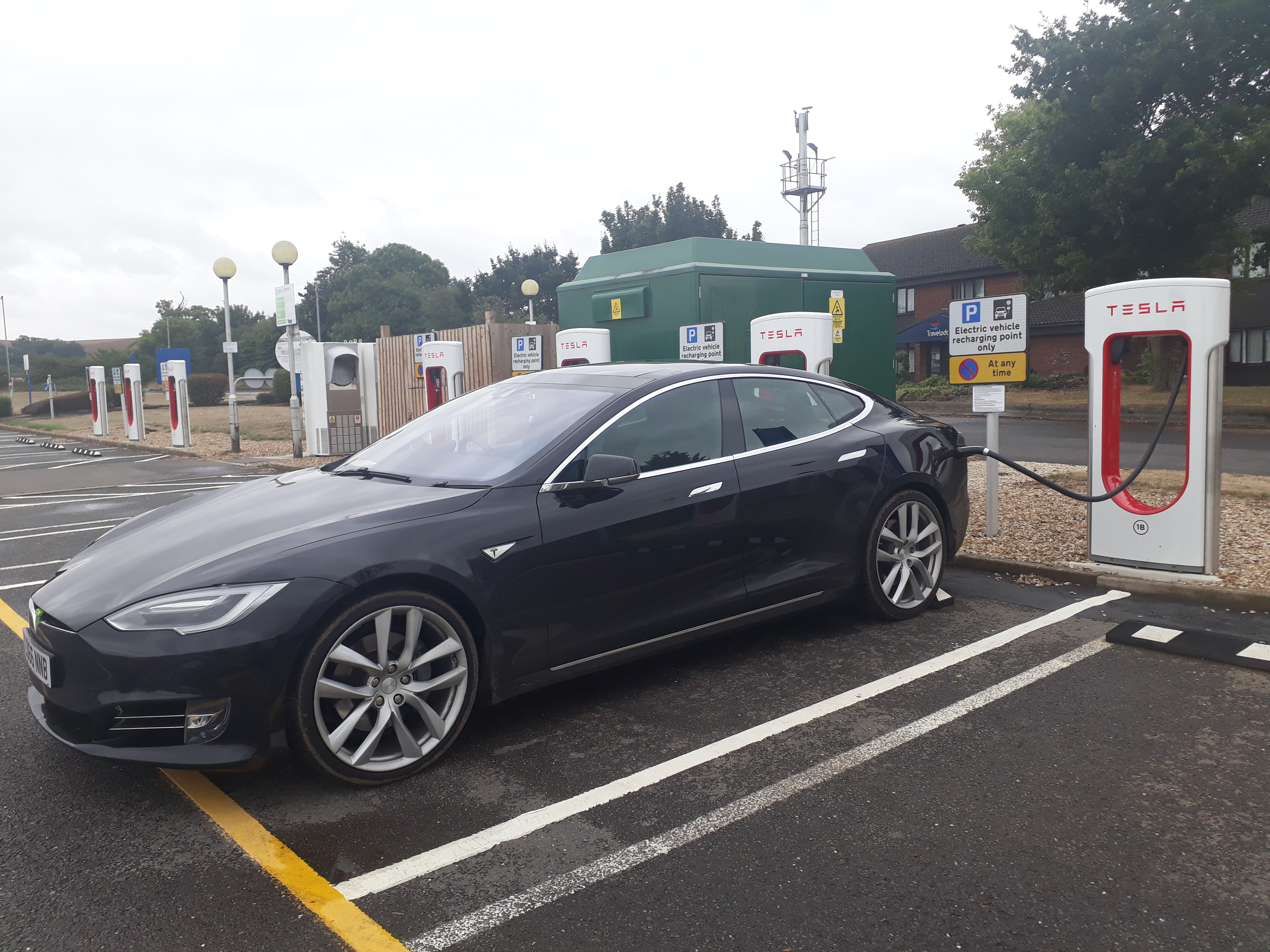 Electric vehicle charging station with a Tesla at the A1 near Grantham , England